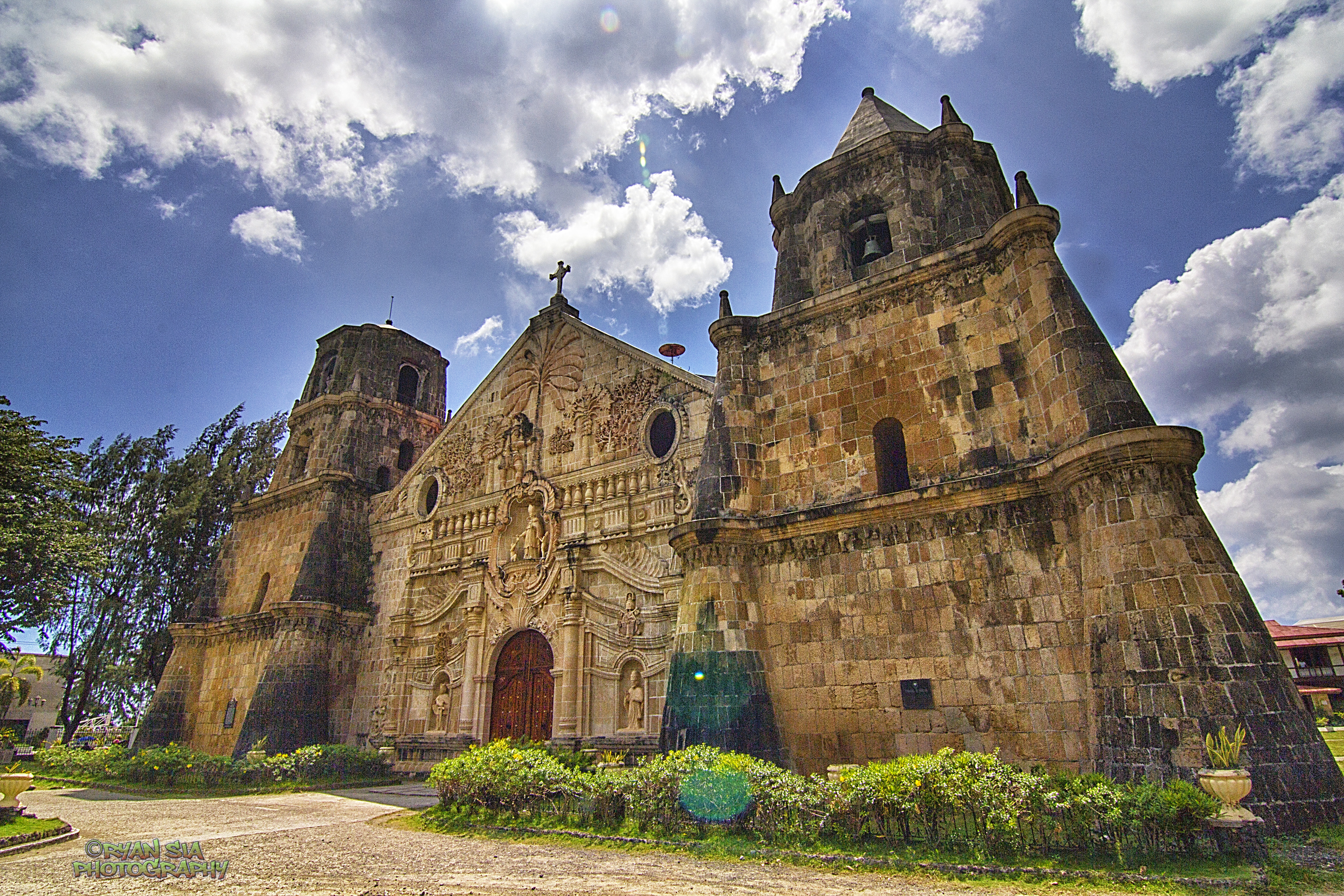 Miagao Church, Santo Tomas de Villanueva Parish Church, Facade of Miagao Fortress Church. Villanueva Parish Church is a Roman Catholic church located in Miagao, Iloilo, Philippines. The church was declared as a UNESCO World Heritage Site on December 11, 1993 together with San Agustin Church in Manila; Nuestra Señora de la Asuncion Church in Santa Maria, Ilocos Sur; and San Agustin Church in Paoay, Ilocos Norte under the collective title Baroque Churches of the Philippines, a collection of four Baroque Spanish-era churches. Miagao was formerly a visita of Oton until 1580, Tigbauan until 1592, San Joaquin until 1703 and Guimbal until 1731.[2] It became an independent parish of the Augustinians in 1731 under the advocacy of Saint Thomas of Villanova.